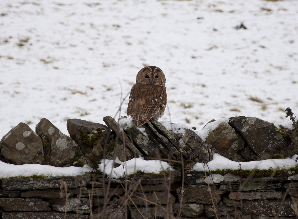 Tawny Owl Strix aluco, Yorkshire